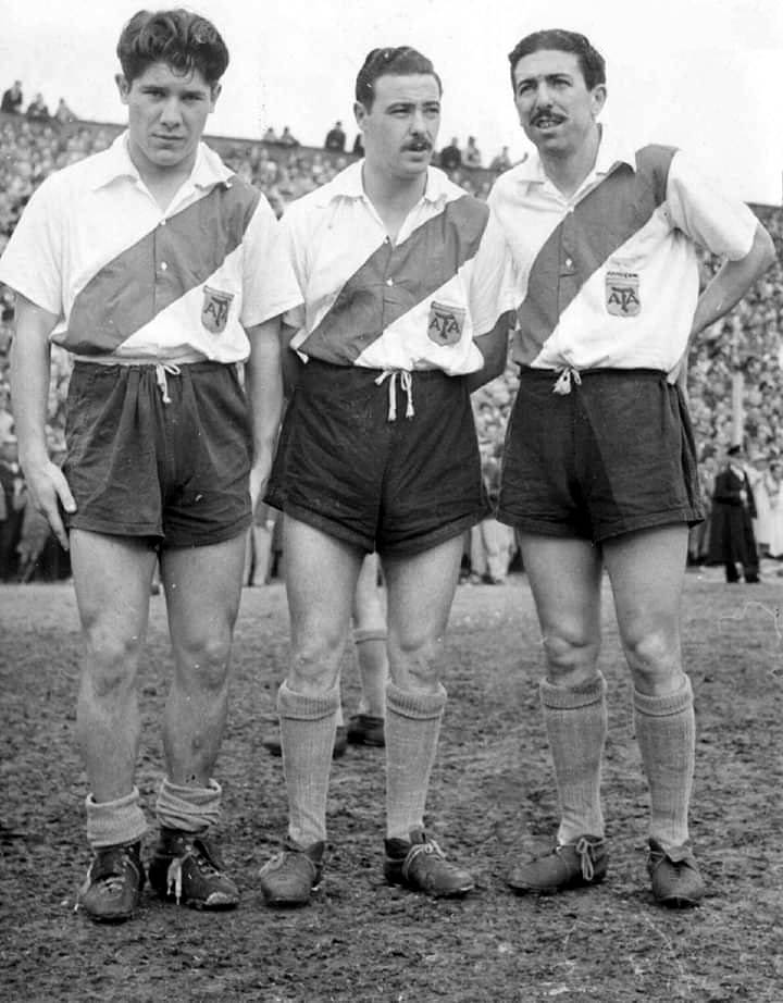 River Plate players from left to right: Omar Sívori, Walter Gómez and Ángel Labruna. c. 1955.